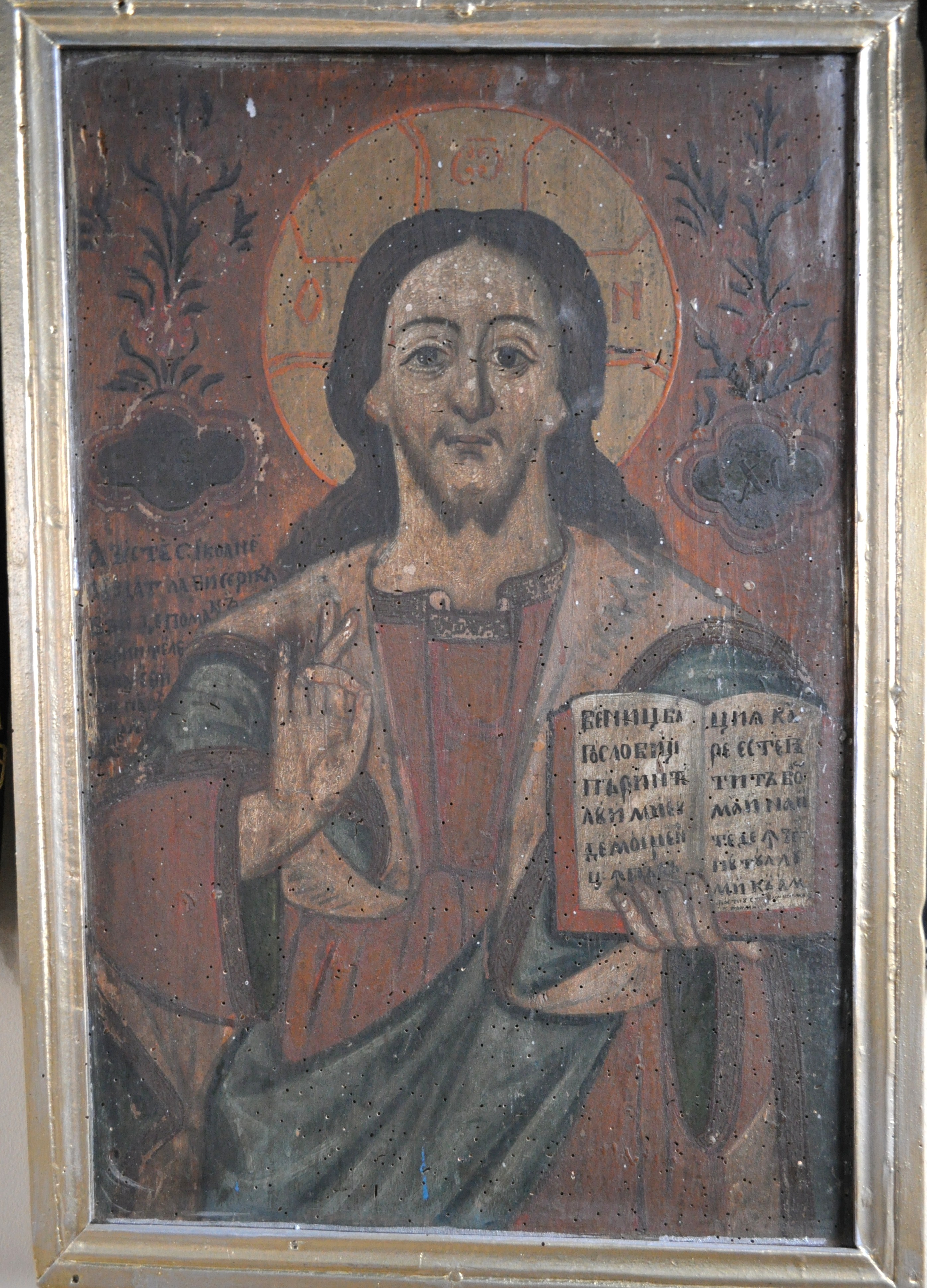 Wooden church in Baia, Arad county, Romania